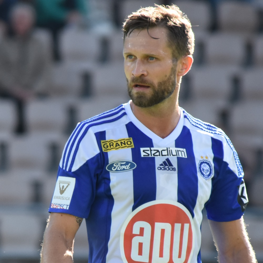 Association football player Hannu Patronen (2018)